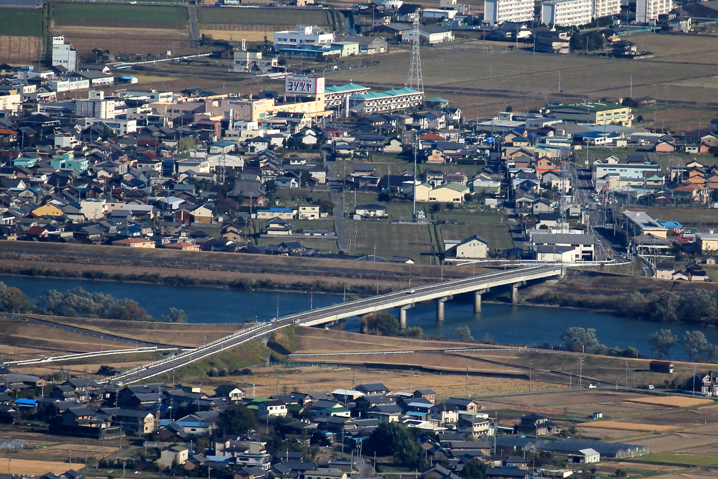 Imao Bridge over Ibi River, in Kaizu City, Gifu Prefecture, Japan.